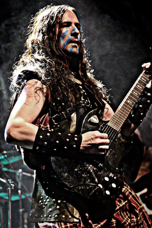 Keith on stage in Dublin